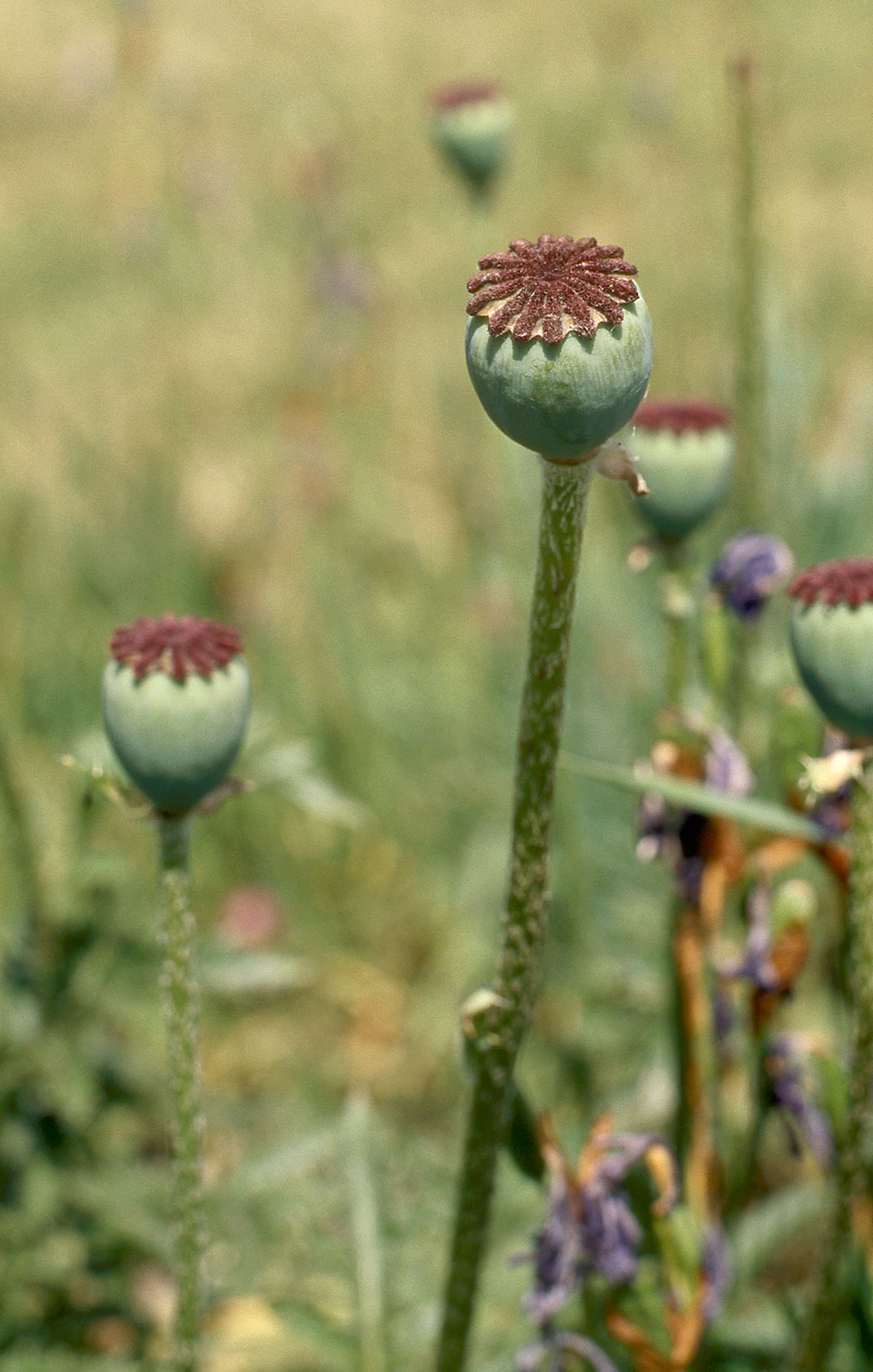 Papaver orientale, Kiev, Ukraine, national botanical garden